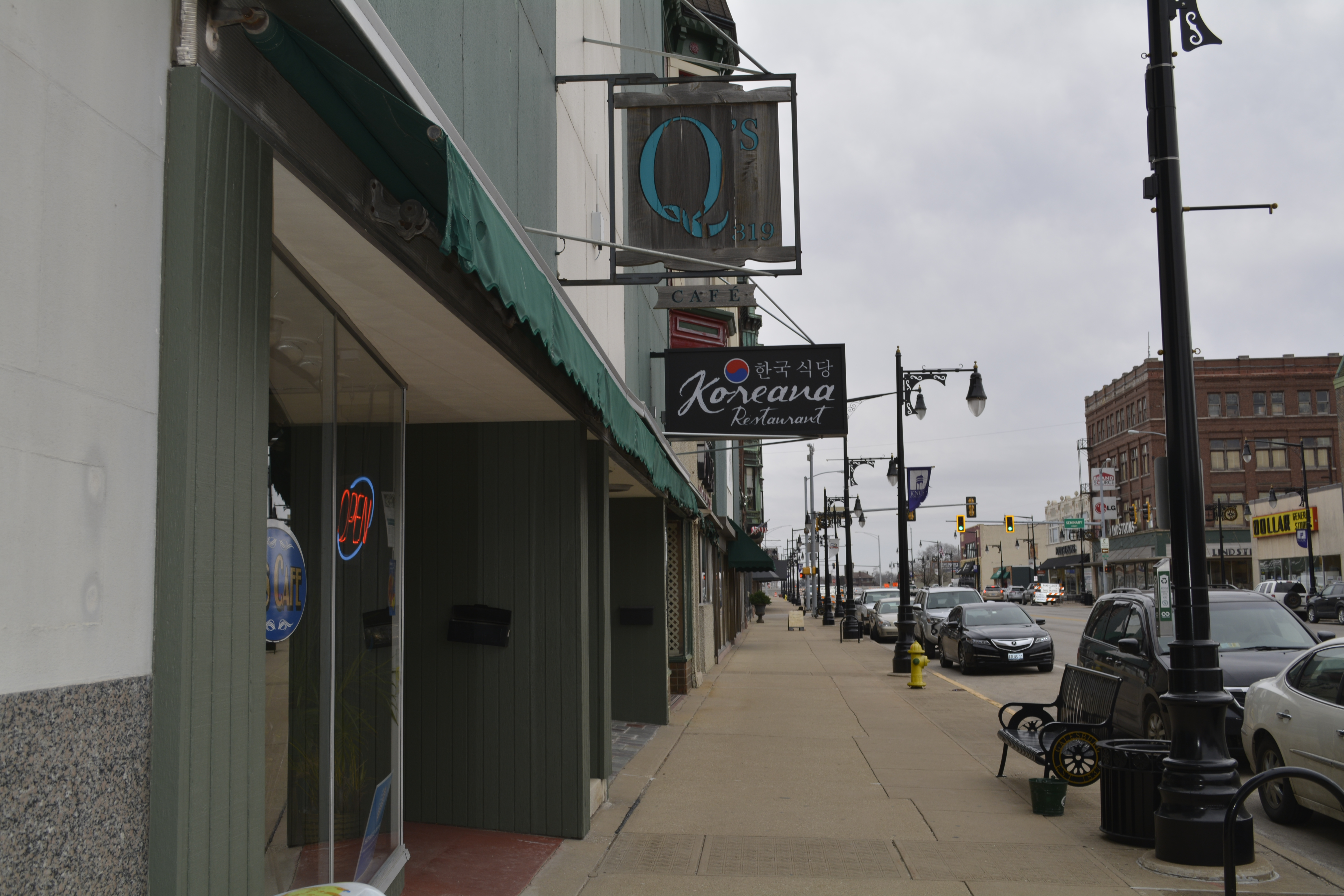 Restaurant on Main Street (US Hwy 150) in Downtown Galesburg Illinois